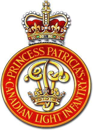 Princess Patricia's Canadian Light Infantry cap badge. Most visible symbol to represent regiment.